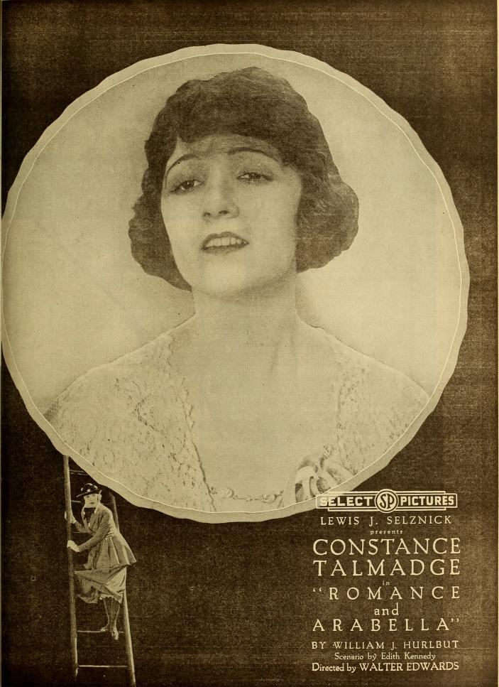 Advertisement in Moving Picture World for the American film Romance and Arabella (1919).